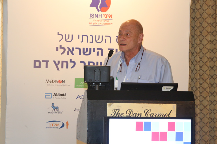 Picture from recent convention